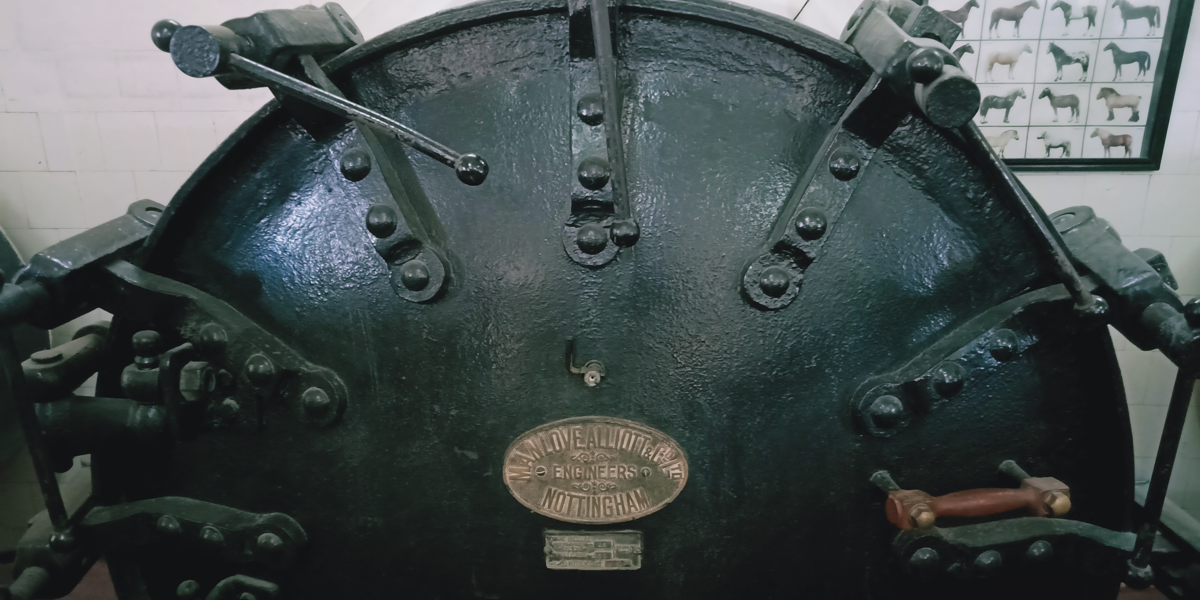 Autoclave, Mukteshwar